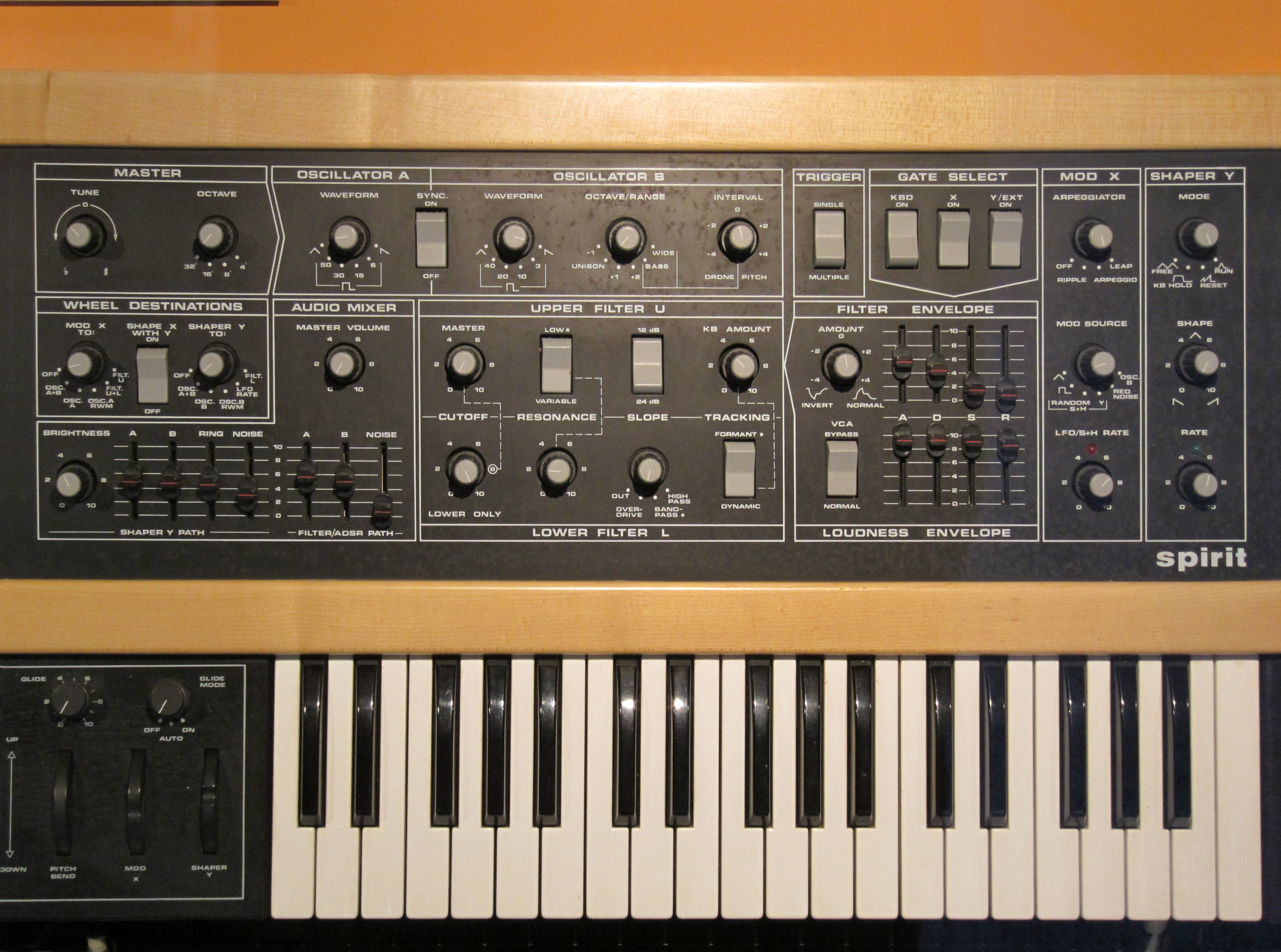 Winter NAMM 2010 Day 1 “Crumar Spirit Serial #0001 found in Bob's Workshop” —Upcoming Museum Exhibit Features Bob Moog’s Archives (July 21, 2009) by Bob Moog Foundation References Upcoming Museum Exhibit Features Bob Moog’s Archives. Bob Moog Foundation (2009-07-21). Archived from the original on 2014-07-14. "", "Who: The Bob Moog Foundation & The Museum of Making Music / What: Waves of Inspiration. The Legacy of Moog. An exhibit, interactive engagement and opening weekend of performances by Keith Emerson and Erik Norlander. / When: August 28-30, 2009 / Where: Carlsbad, CA"